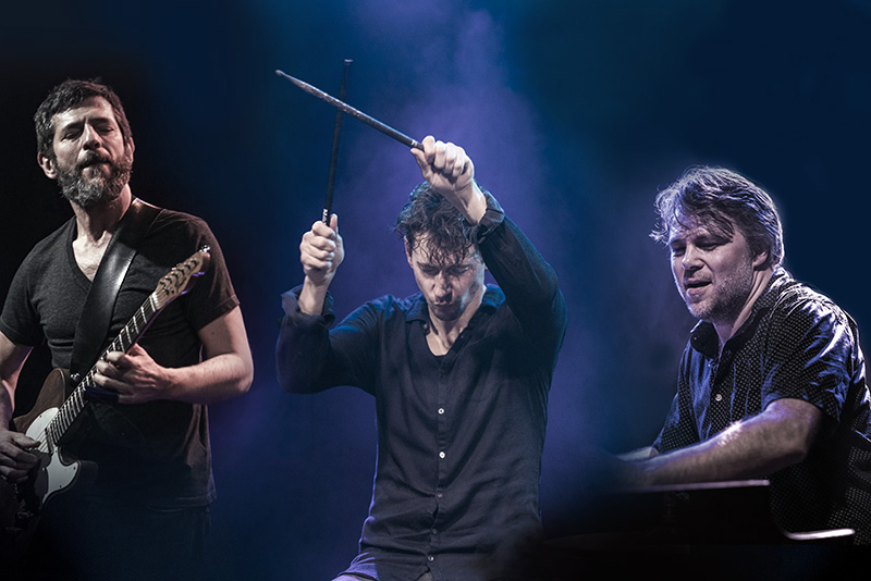 Ibrahim Electrid @ Atlas - Aarhus, Denmark 2017